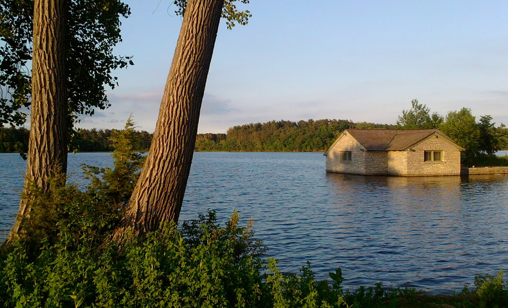 St Paul Water Utility building, Vadnais-Snail Lake Regional Park, Vadnais Heights, Minnesota, USA